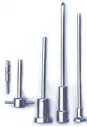 This is an image of the Rochester Bone Biopsy Trephine Kit.